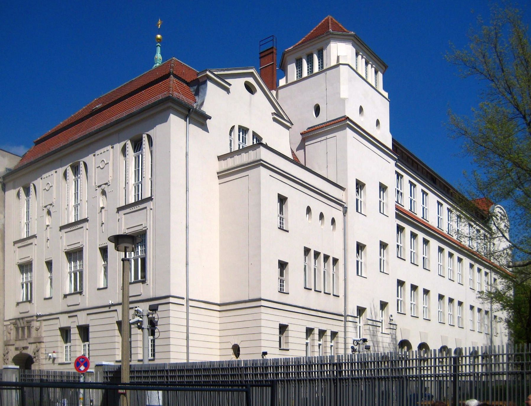 Jewish High School at Große Hamburger Straße No. 27 in Berlin-Mitte. The building was constructed in 1906 to a design by Johann Hoeniger as boys school fpr the Jewish community. It has been designated as a historic landmark.